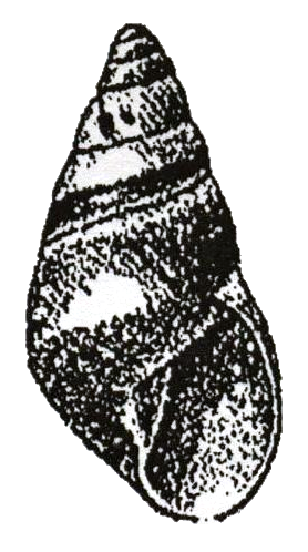 Drawing of the apertural view of the shell of Rhachistia aldabrae.